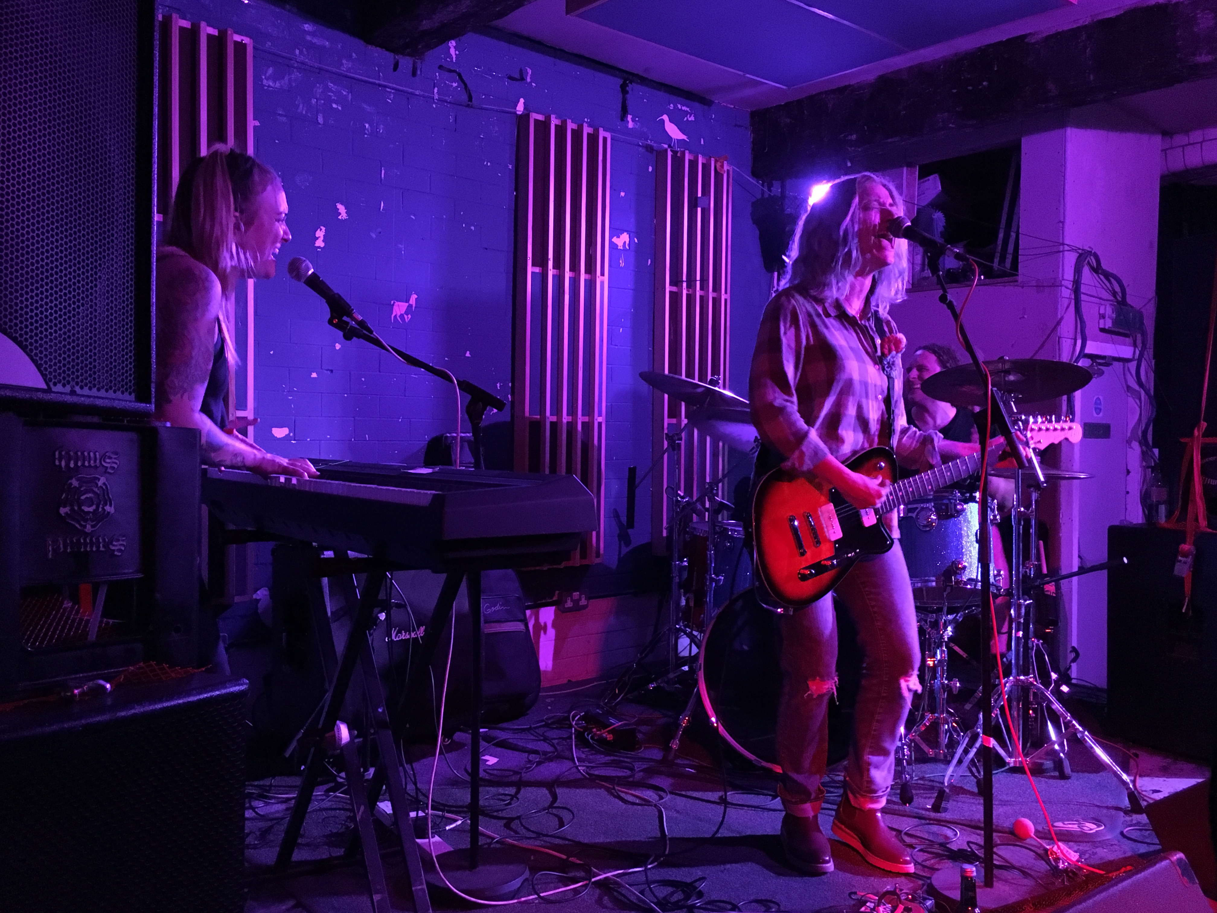 Petal performing at Wharf Chambers with Slingshot Dakota, Leeds, UK, 10 May 2017.